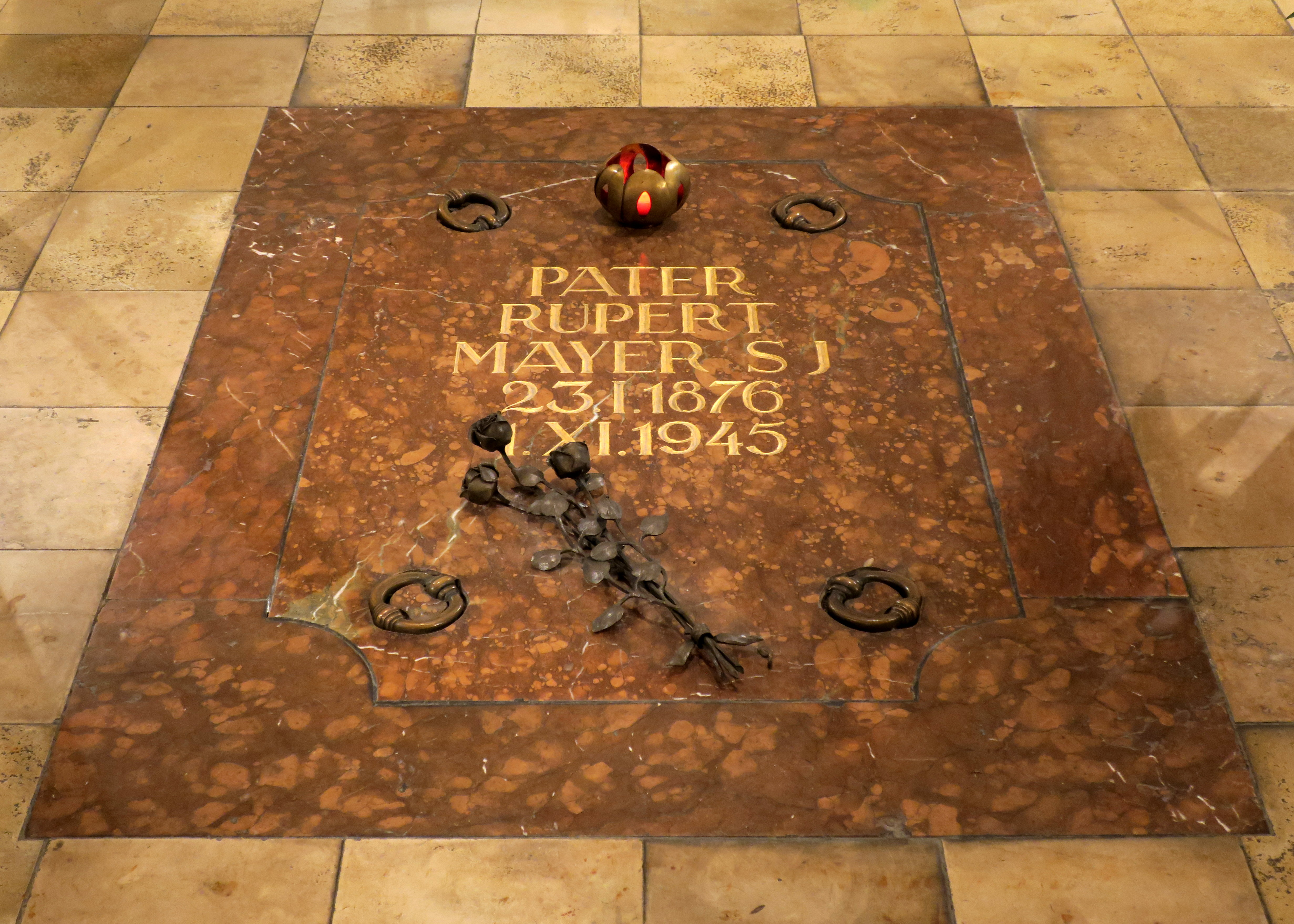 Burgersaalkirche - Grave of Rupert Mayer (Munich, Bavaria)